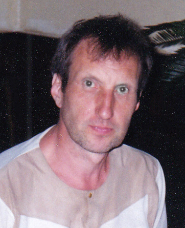 Vladimir Anisimoff, composer & physicist, philanthropist, philosopher, writer from St.Petersburg (Russia);Other information: "the Horn Orchestra of Russia" played "Sinfonia Piccola" (Symphony N 3) by Vladimir Anisimoff. I was in Finland at this time and bought a ticket to the concert. After the concert I was invited to a Banquet.